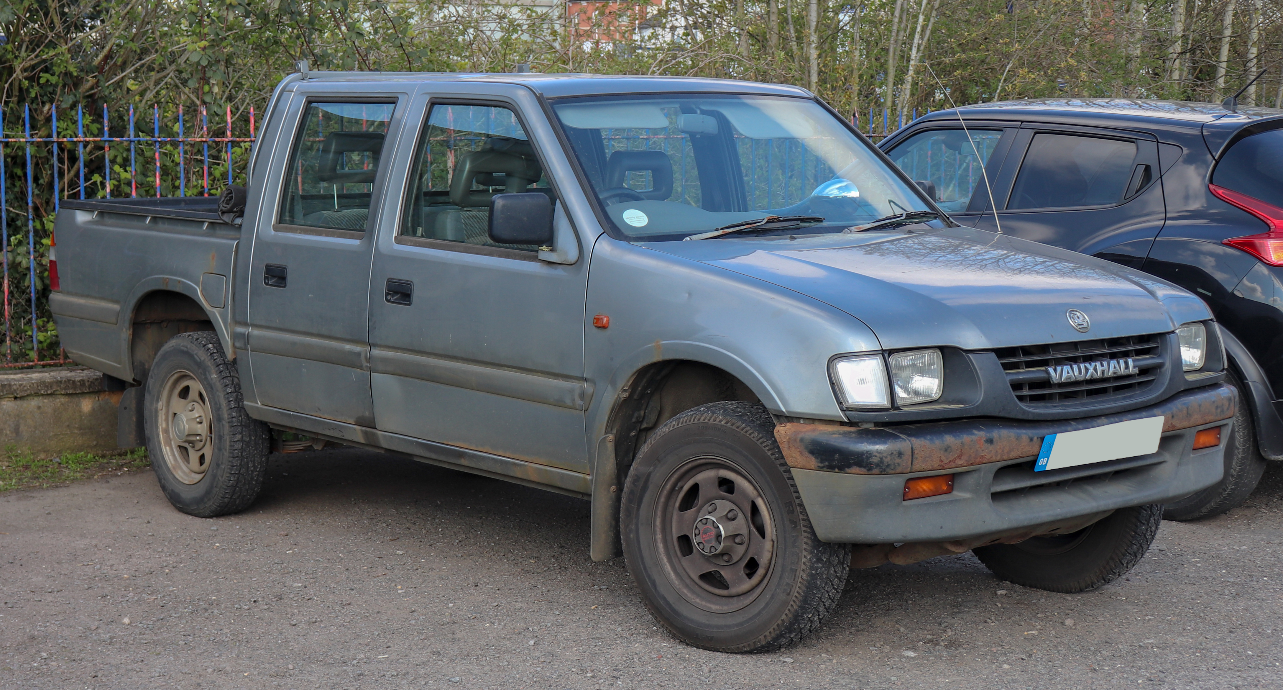 2000 Vauxhall Brava Di 4X4 2.5 Taken in Banbury